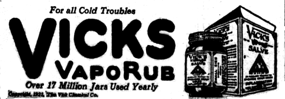 Cropped from the newspaper shown, shows a box of the product, circa 1921